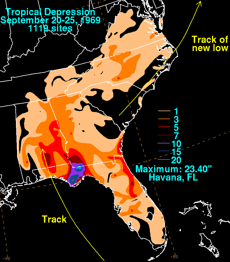 Storm total rainfall map of Tropical Depression Twenty-Nine during September 1969.